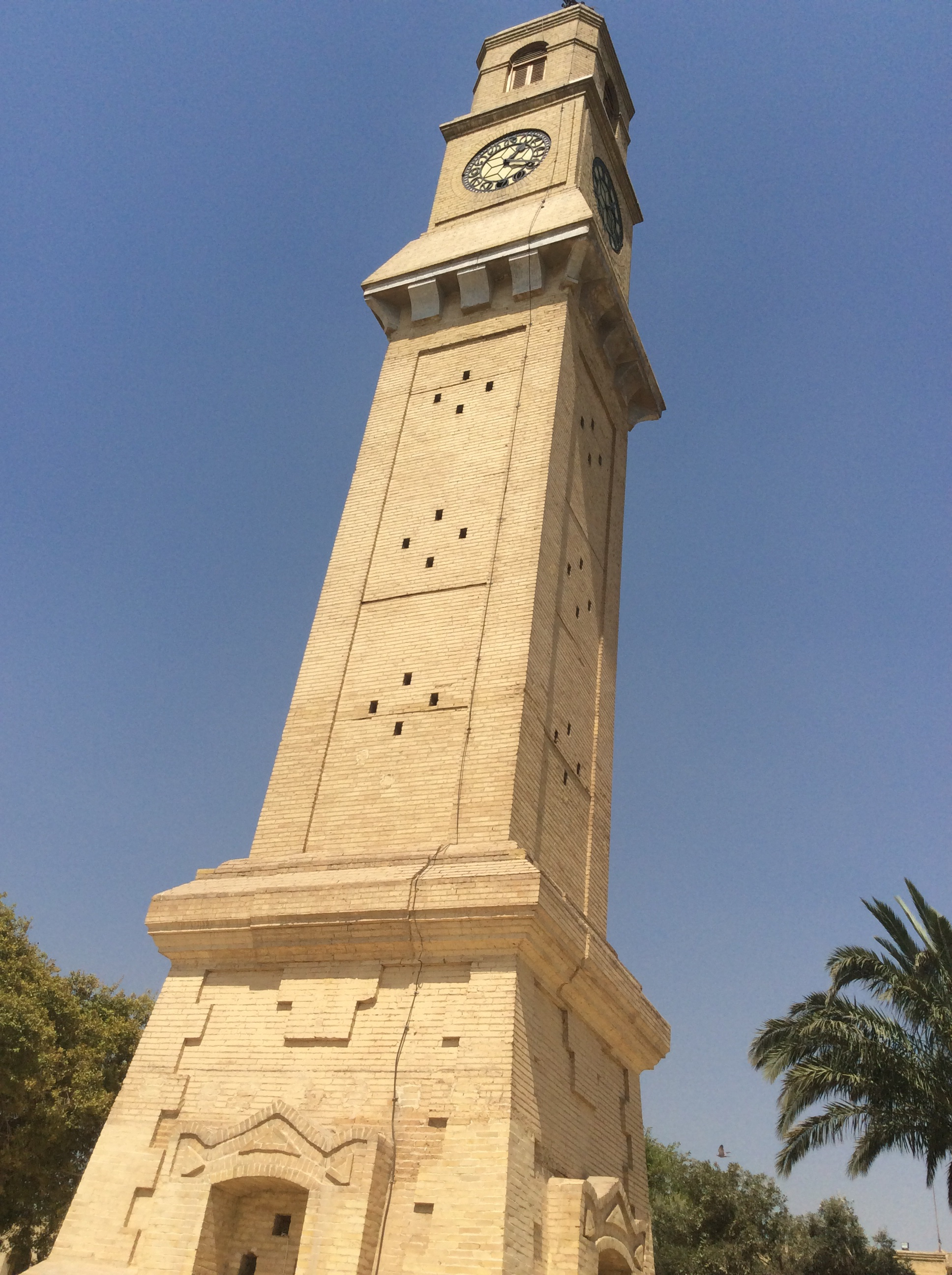 Al Qishlah in Baghdad - Rasafa